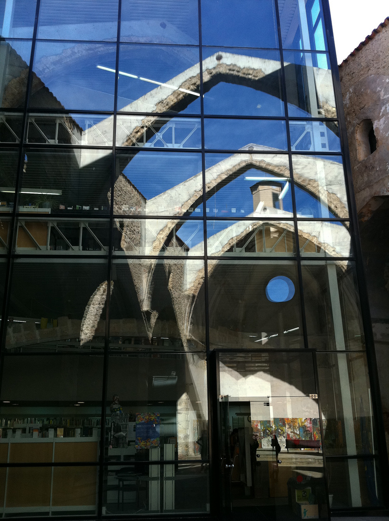 Library of Sant Agustí, la Seu d'Urgell, Catalonia.